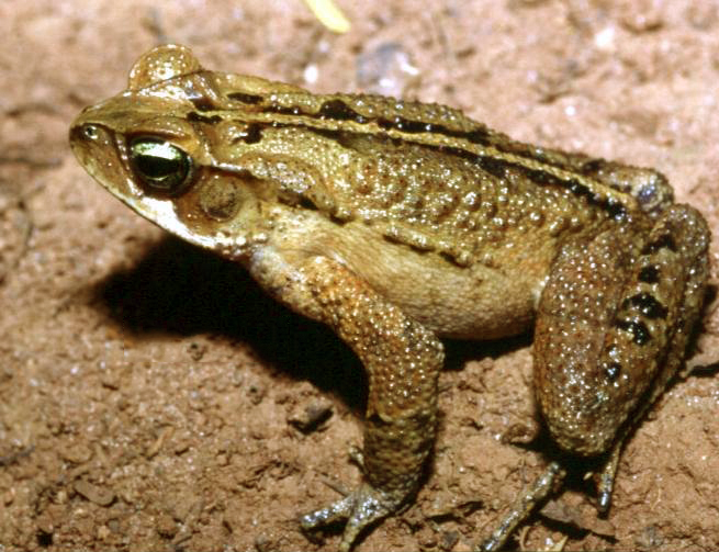 Bufo ornatus